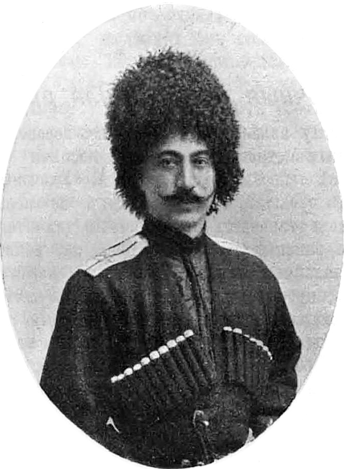 Feyzulla Mirza Qajar, an officer of "Wild Division". 1905